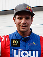 Rallycross driver Peter Hedström at RallyX, Knutstorp Ring, Sweden.